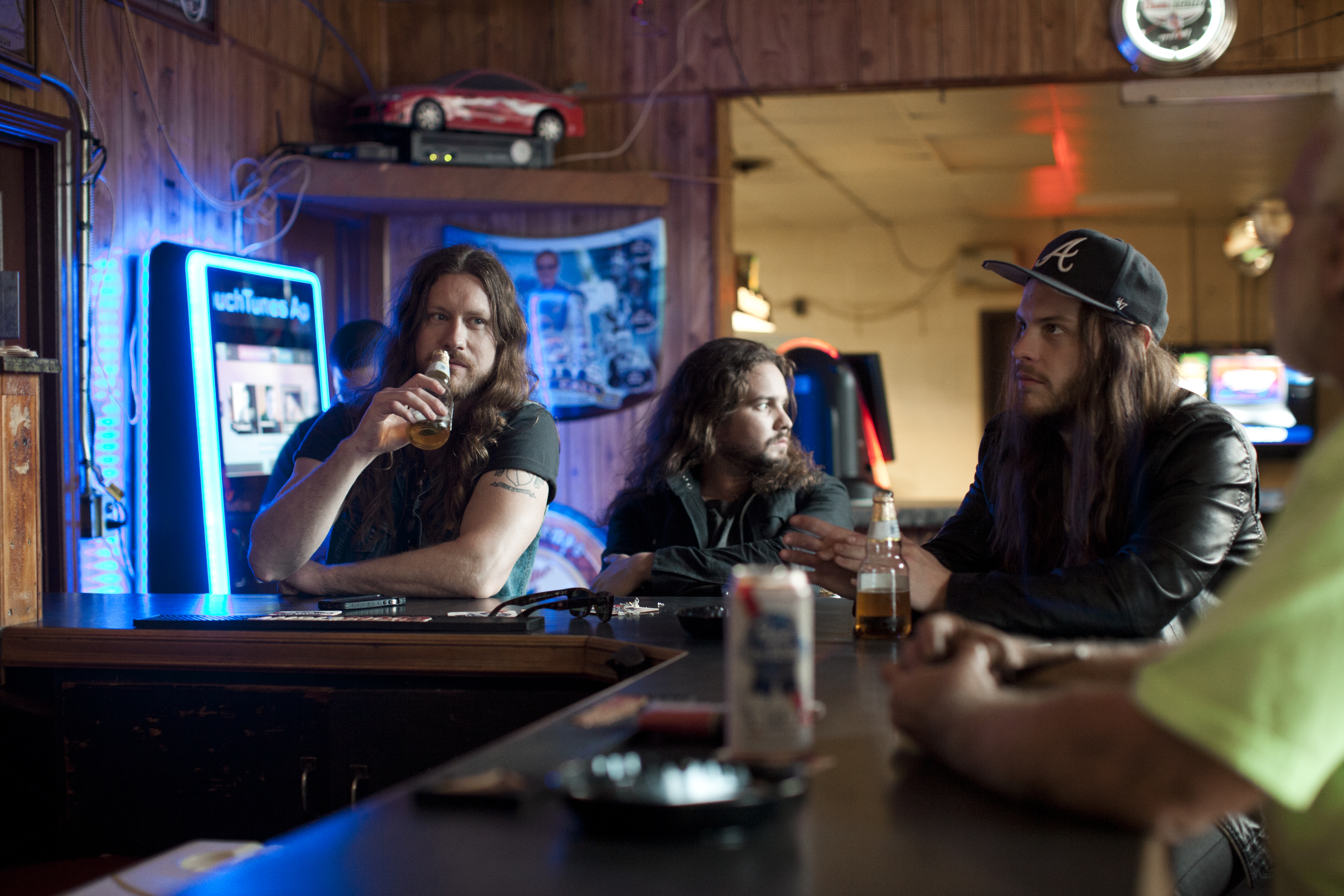 Goodbye June at favorite dive bar in Nashville, TN